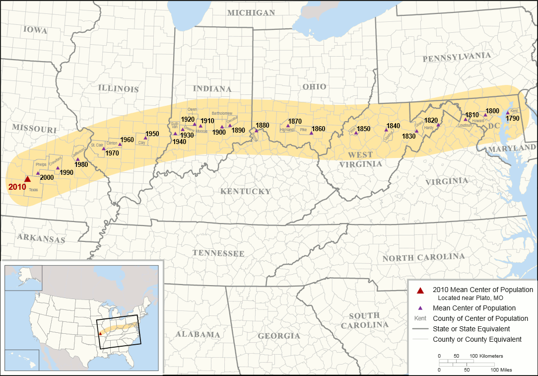 Mean centers of population for the United States, 1790-2010